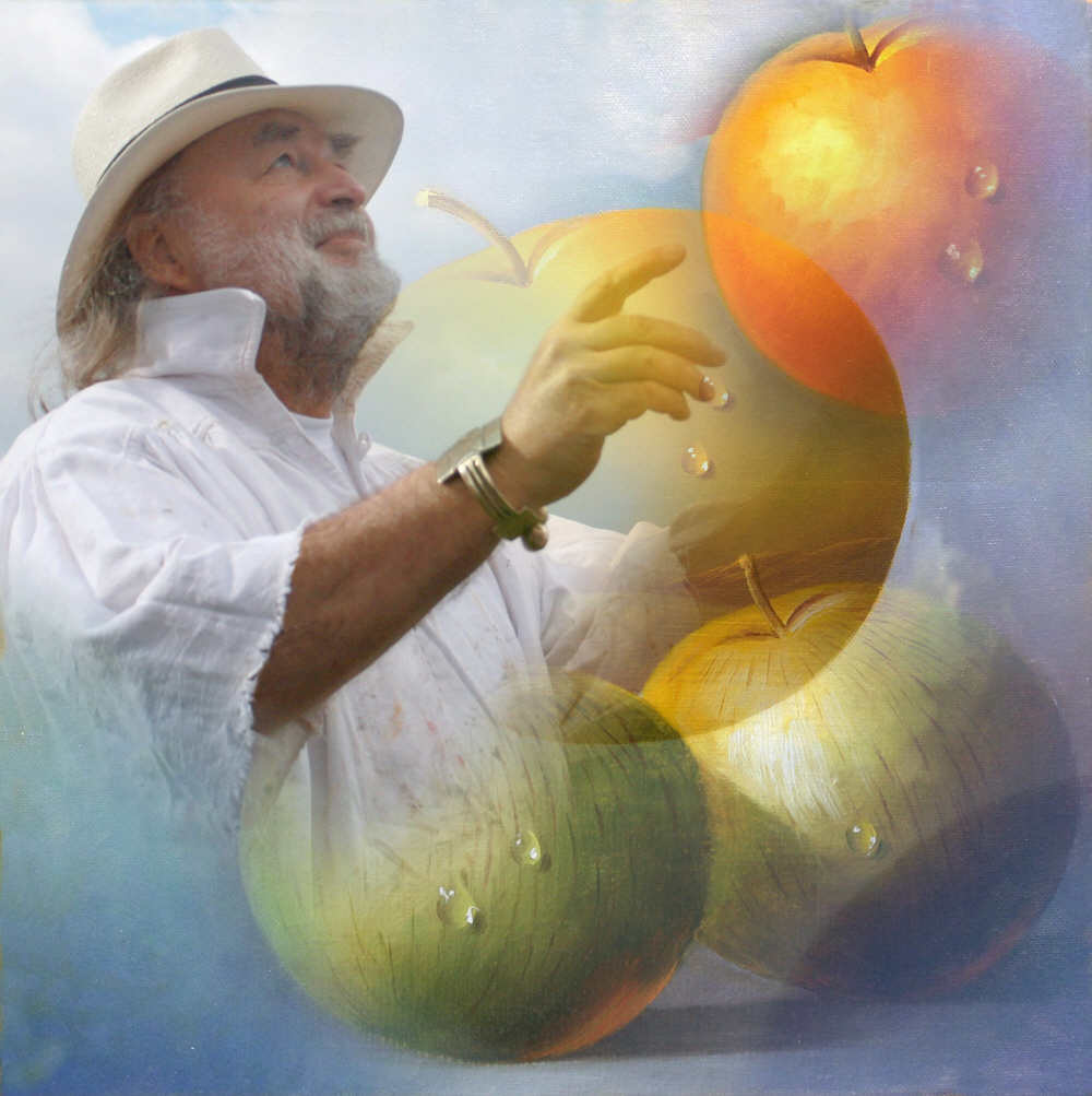 Photo of Herdin Radtke merging with his art